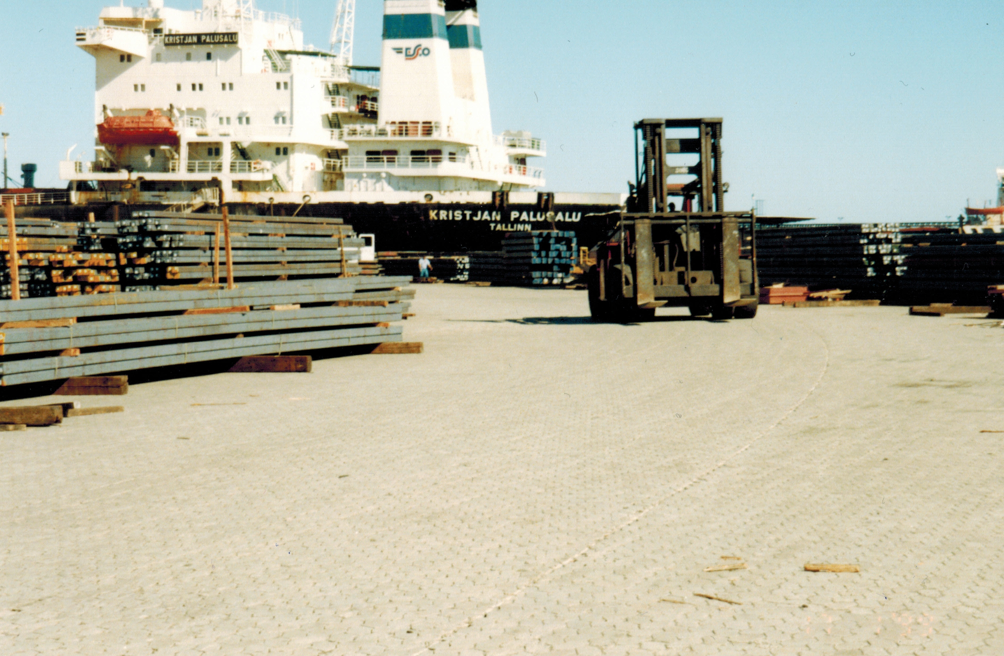 Timber bulk carrier Kristjan Palusalu Port of Vitoria, Brazil in 1999